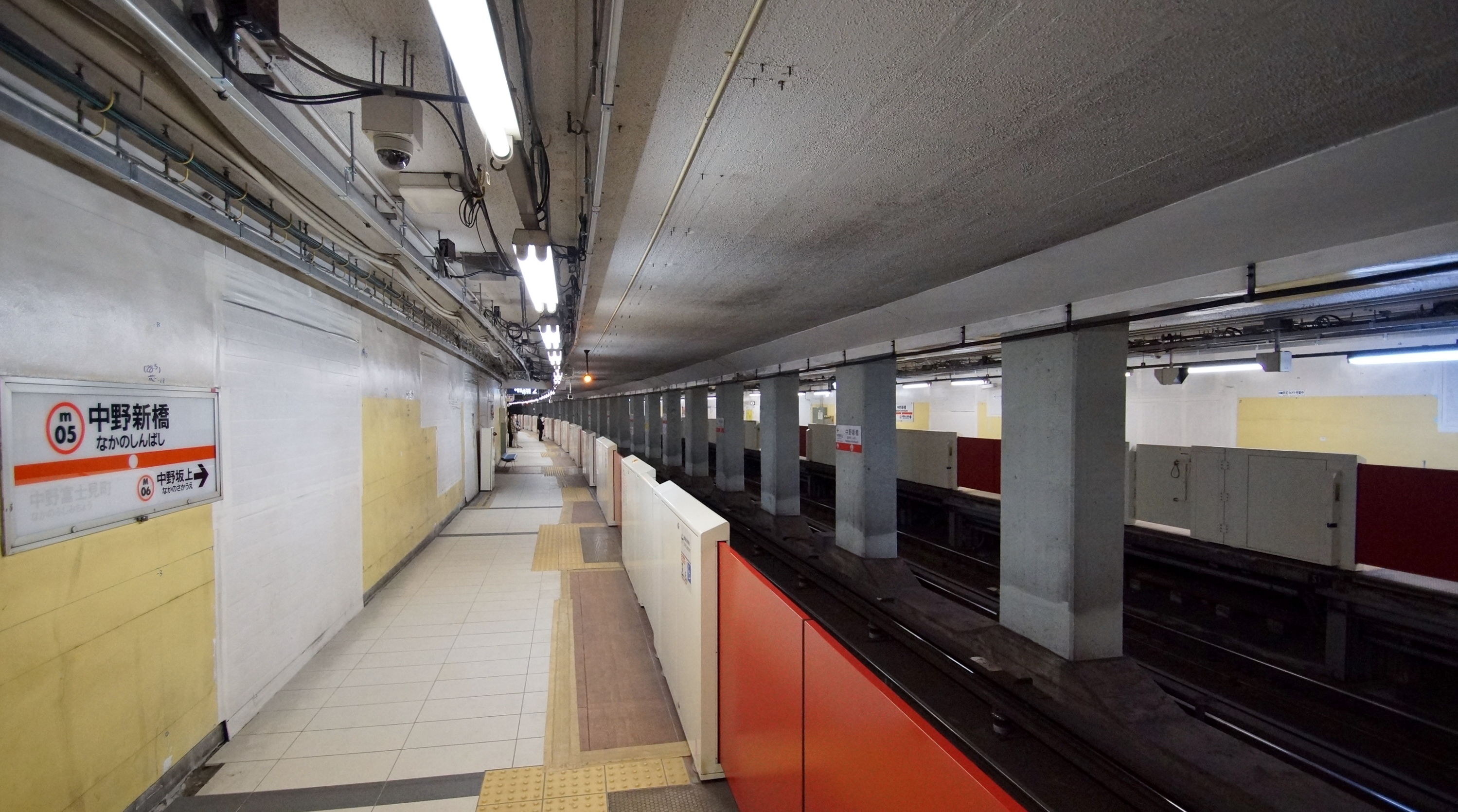 The south end of platform 2 (Nakano-sakaue-bound) at Nakano-Shimbashi Station on the Tokyo Metro Marunouchi Line in Nakano, Tokyo